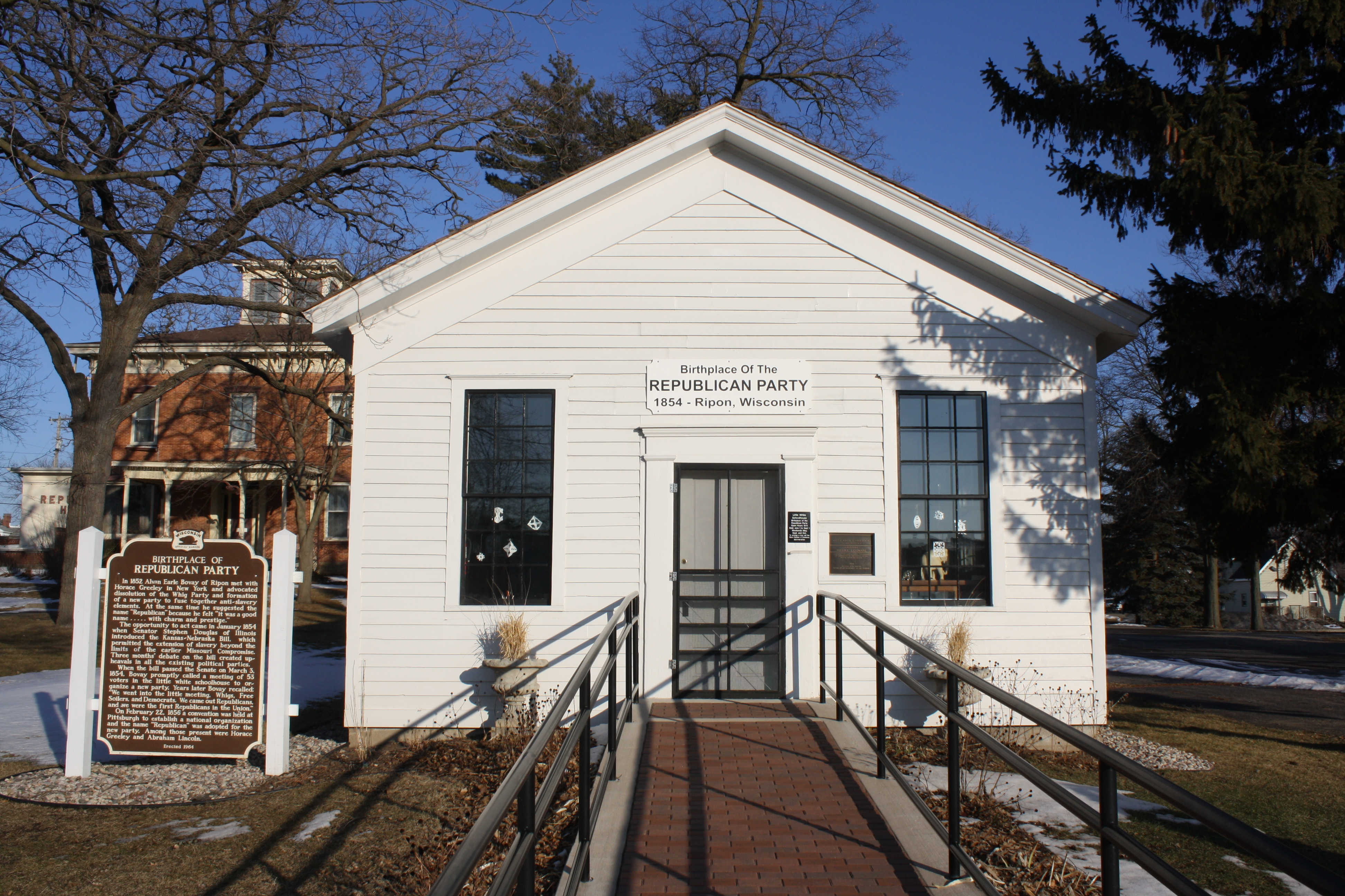 The Little White Schoolhouse, the birthplace of the Republican Party of the United States. It is listed on the National Register of Historic Places and National Historic Landmarks.